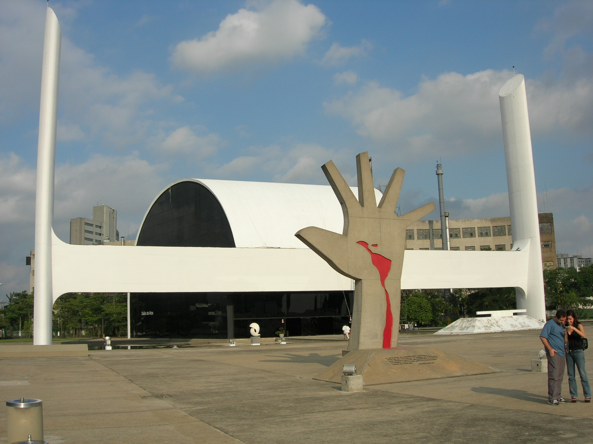 Imagem of the Mão(front) of Oscar Niemeyer and Salão do Atos Tiradentes (back) in Memorial da América Latina - São Paulo, SP.